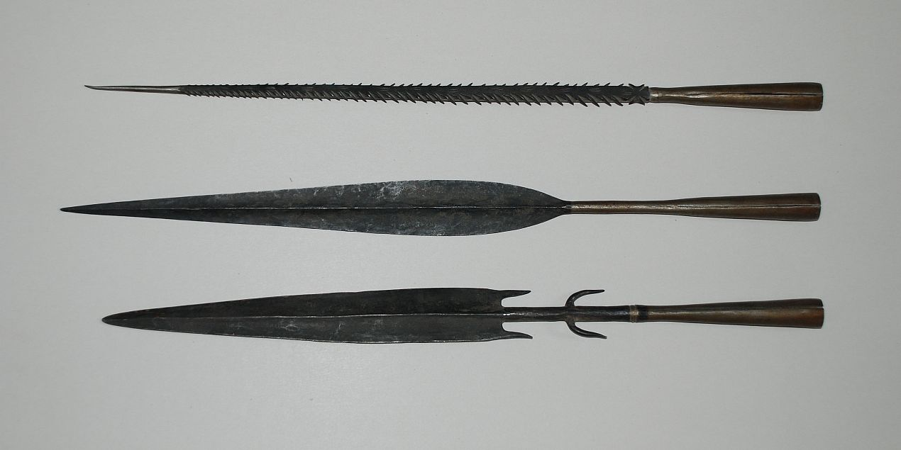 Traditional Dinka spearheads, from Wau, South Sudan.